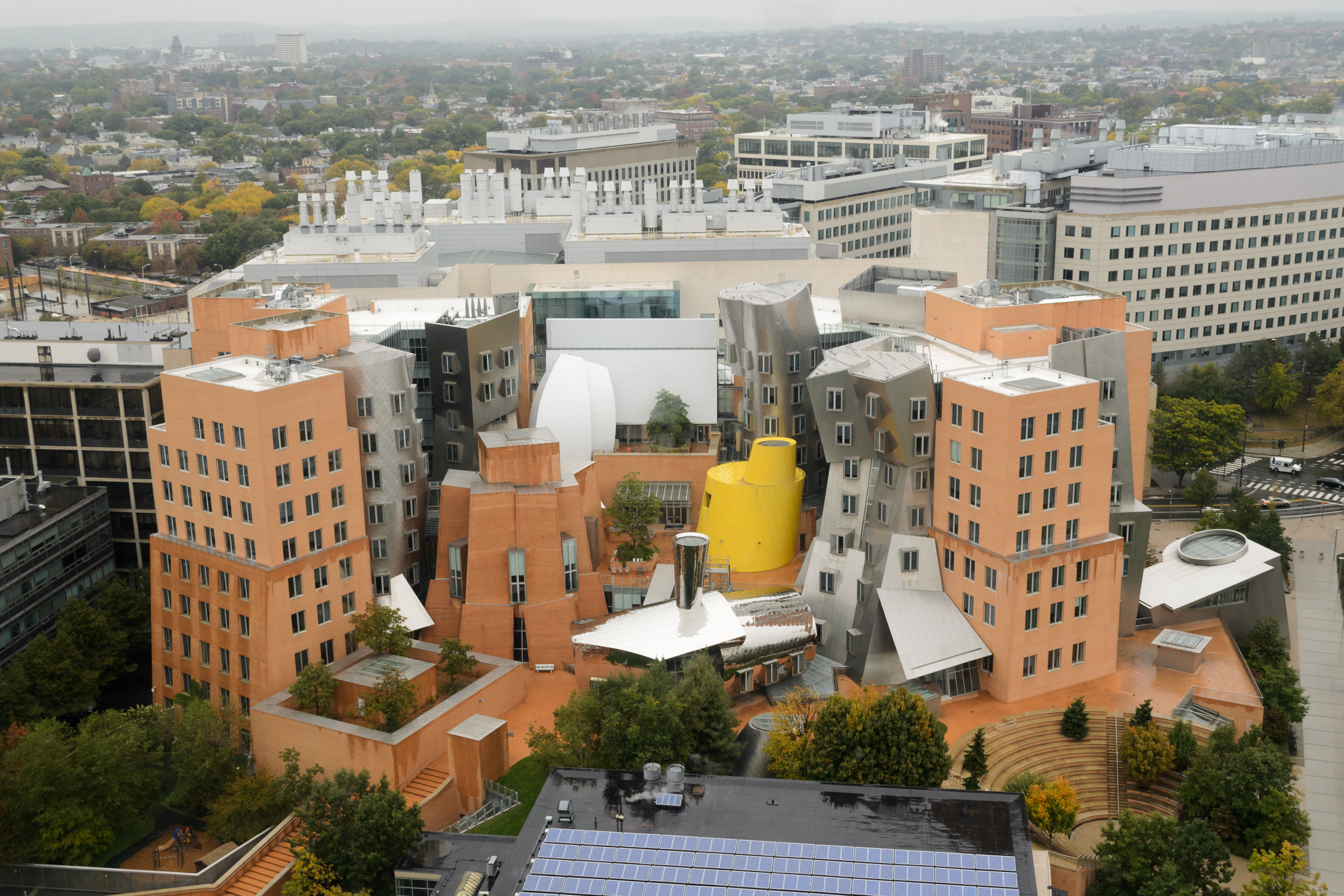 Ray and Maria Stata Center, as seen from the Green Building (Building 54), Massachusetts Institute of Technology, Cambridge, Massachusetts.